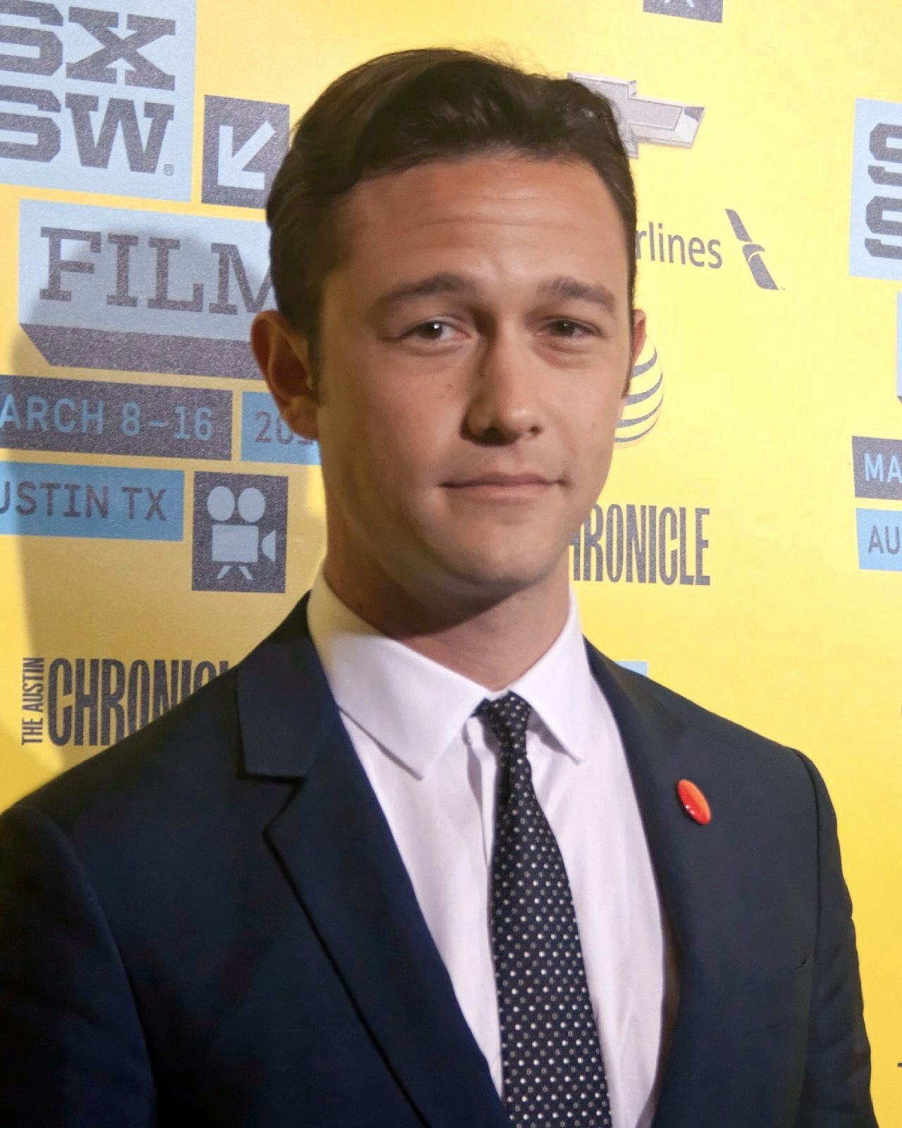 Joseph Gordon-Levitt at the South by Southwest premiere of Don Jon in Austin, Texas, March 11, 2013.